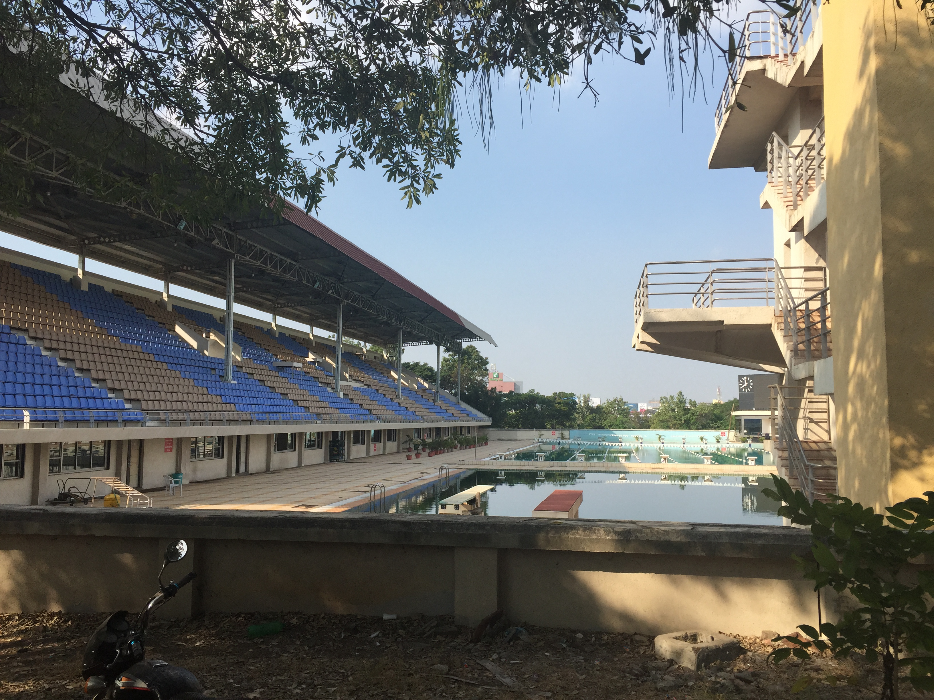 Shree Shiv Chhatrapati Sports Complex aquatic centre